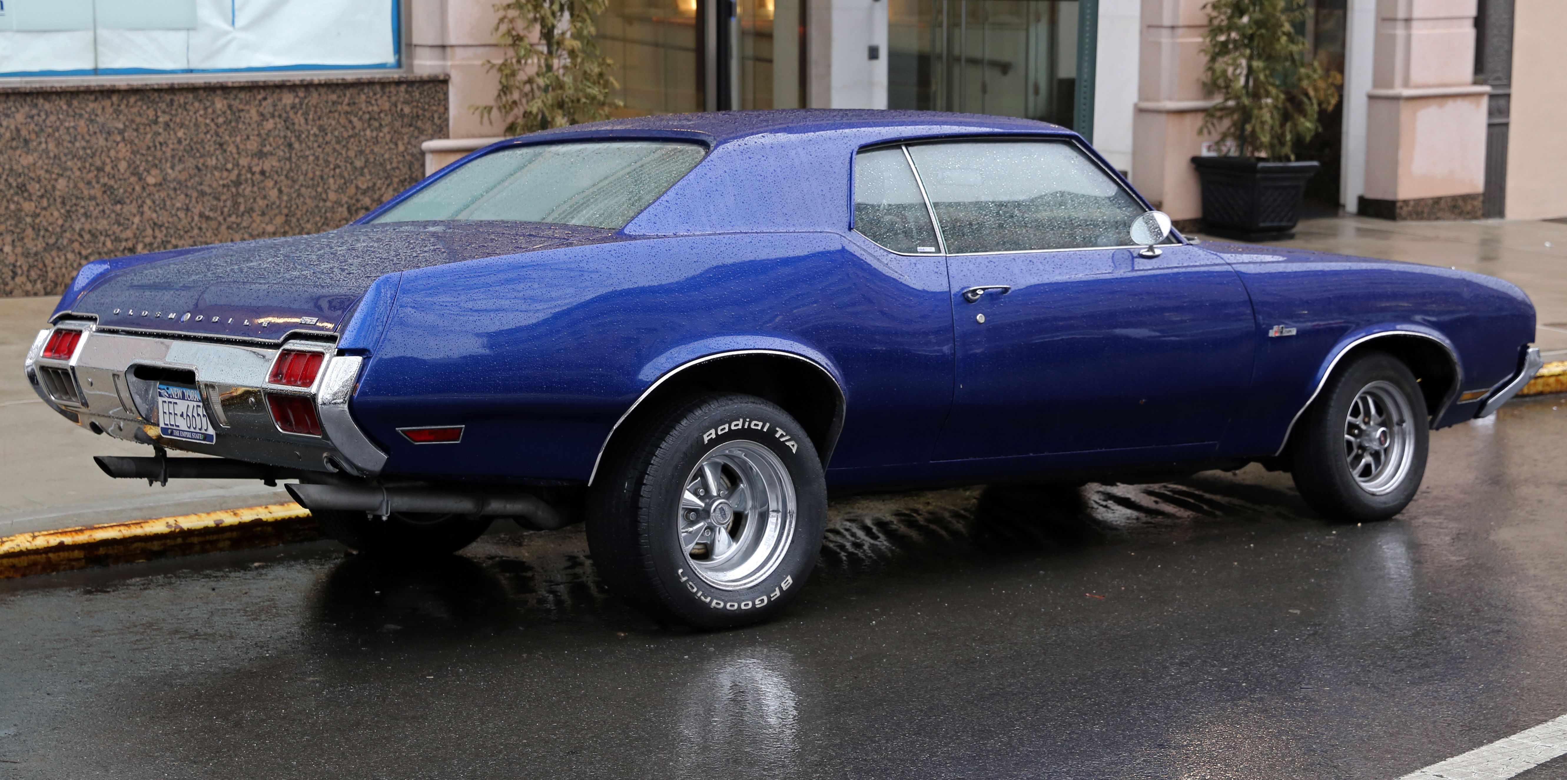 1971 Oldsmobile Cutlass Supreme "Holiday Coupe" (=2-door HT coupe). Built in Lansing, MI. Rather large rear wheels and some Hurst trim pieces suggest that this is a bit of a drag racer